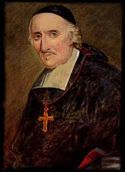 François de Montmorency-Laval